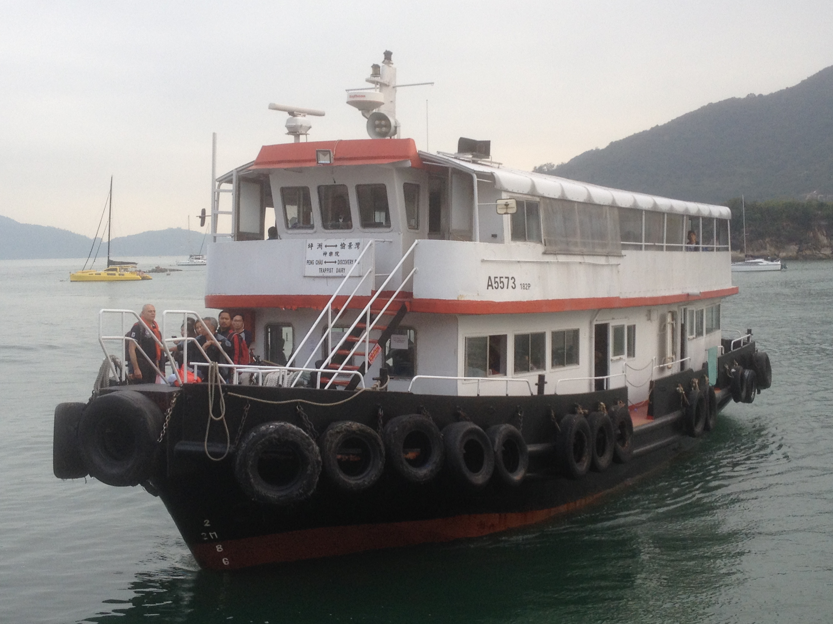 This photo is taken in Discovery Bay.